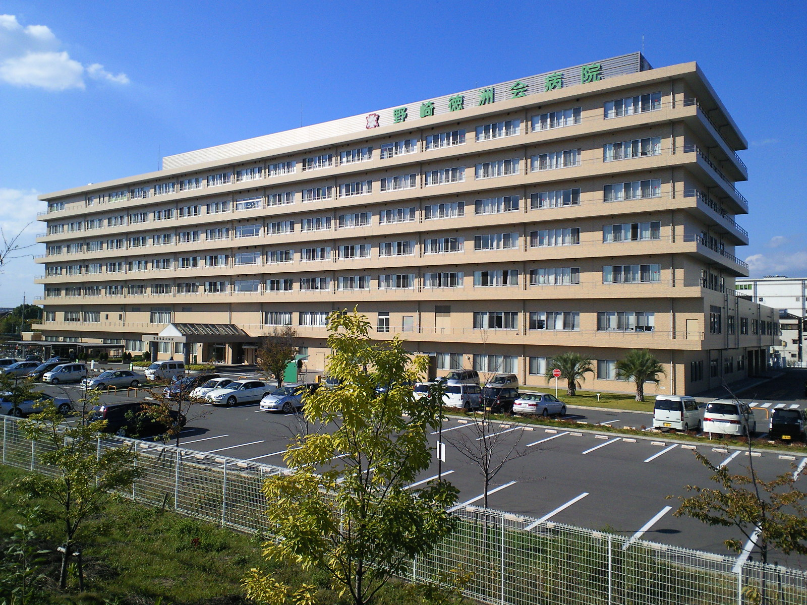 Nozaki Tokushukai Hospital, Daito, Osaka